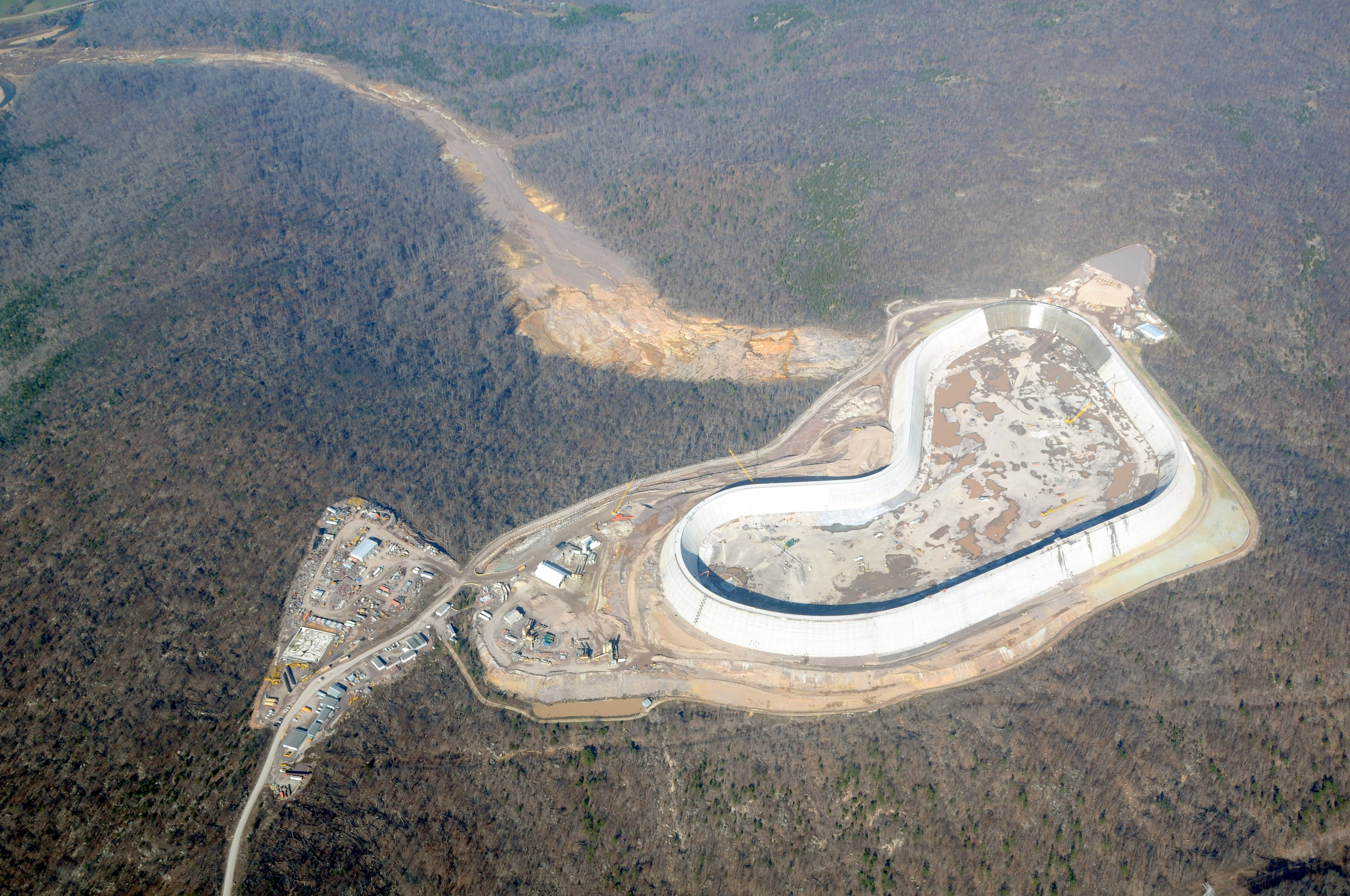 Aerial photo of Taum Sauk Resovoir under construction. Taken in 22 November 2009 from 5500MSL.